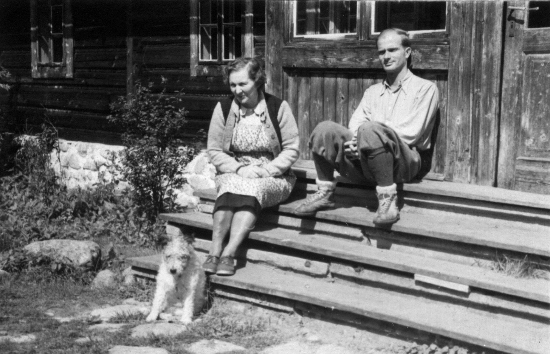 Jozef and Alina Januszkowscy w Zakopanem, Poland